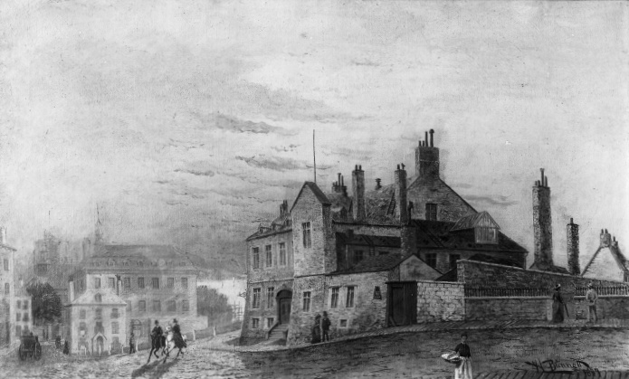 Photograph, Haldimand Castle, painting by Henry R. Bunnett, 1887, copied ca.1913 for The Canadian Annual Review, Wm. Notman & Son, Silver salts on glass - Gelatin dry plate process - 20 x 25 cm